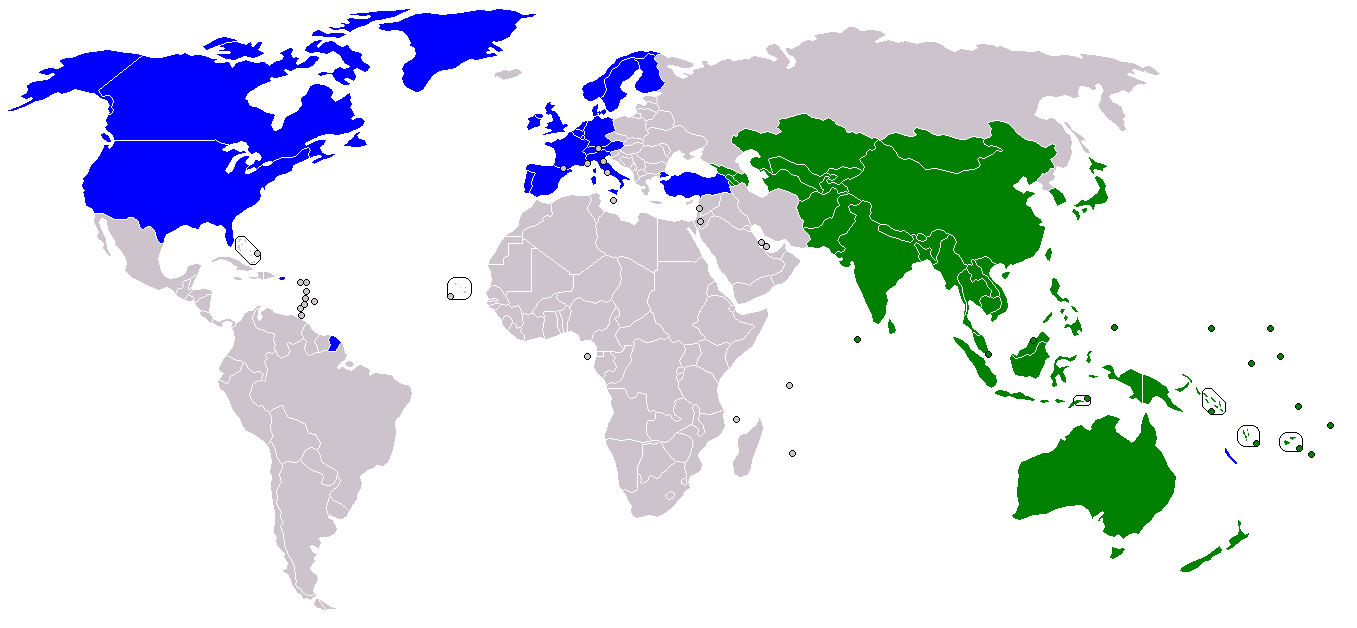 Asian Development Bank members